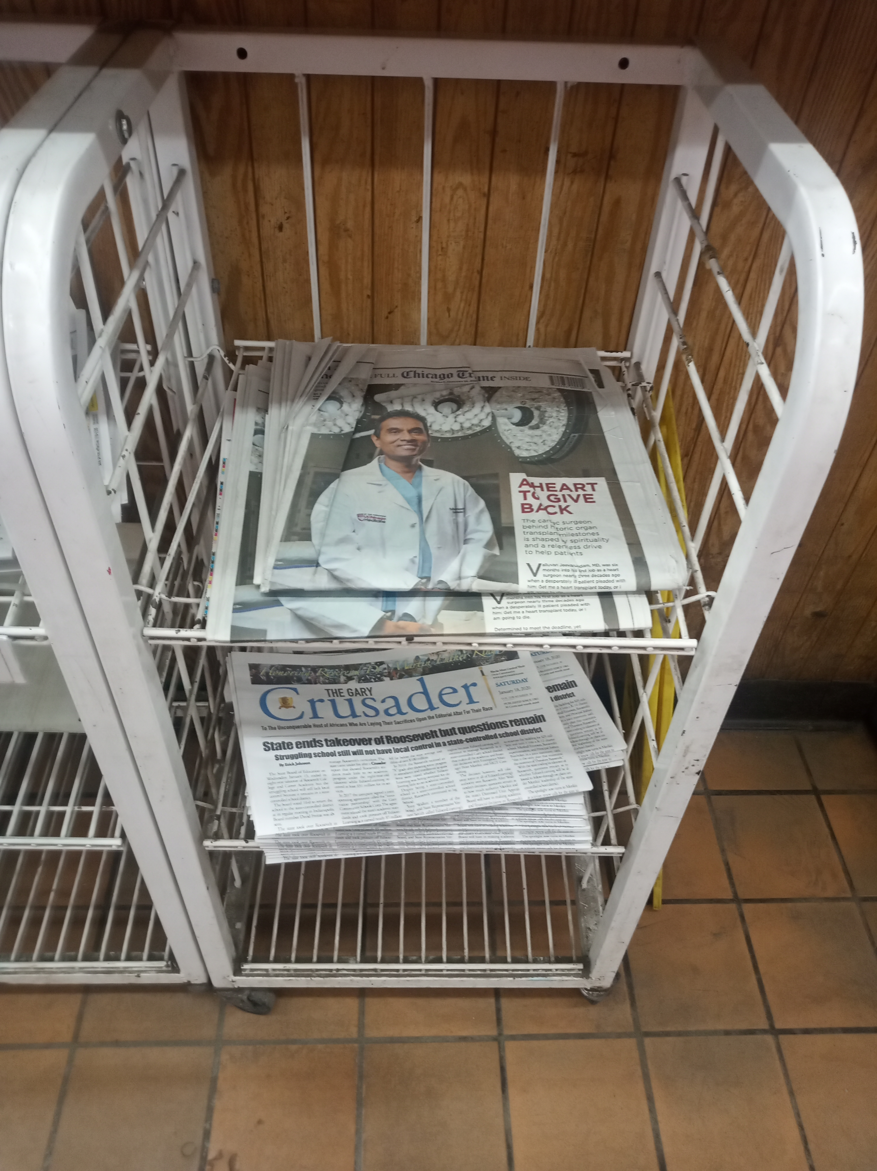 Newspaper distribution rack in Gary, Indiana, with copies of the Gary Crusader and other newspapers.